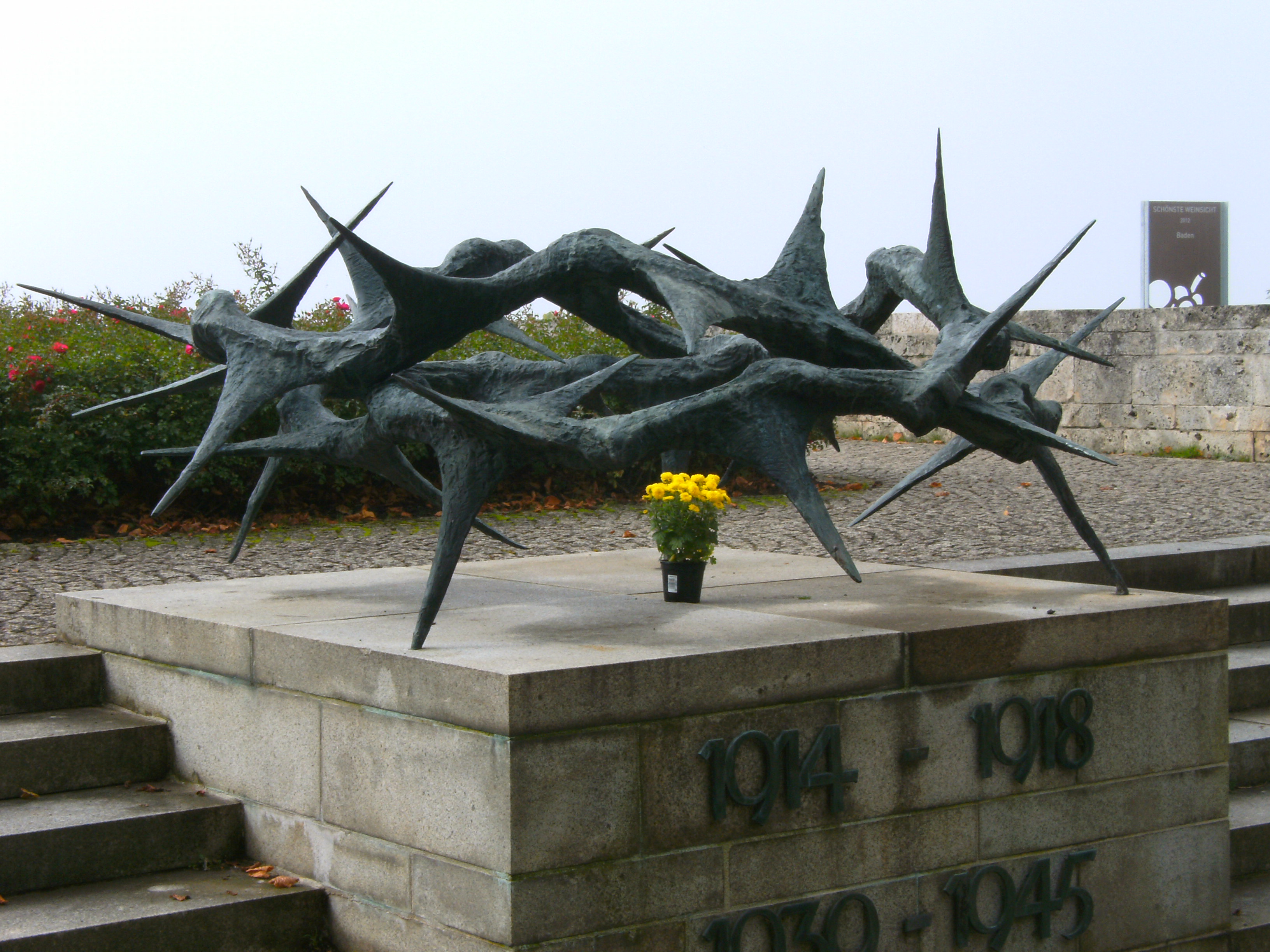 Graves for dead German soldiers of World War I at Meersburg-Lerchenberg in Germany. Crown of thorns, flowers in memory.